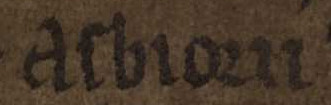 An excerpt from folio 141v of AM 132 fol (Möðruvallabók). The excerpt concerns the Hebridean earl, Ásbjǫrn skerjablesi (died 874).